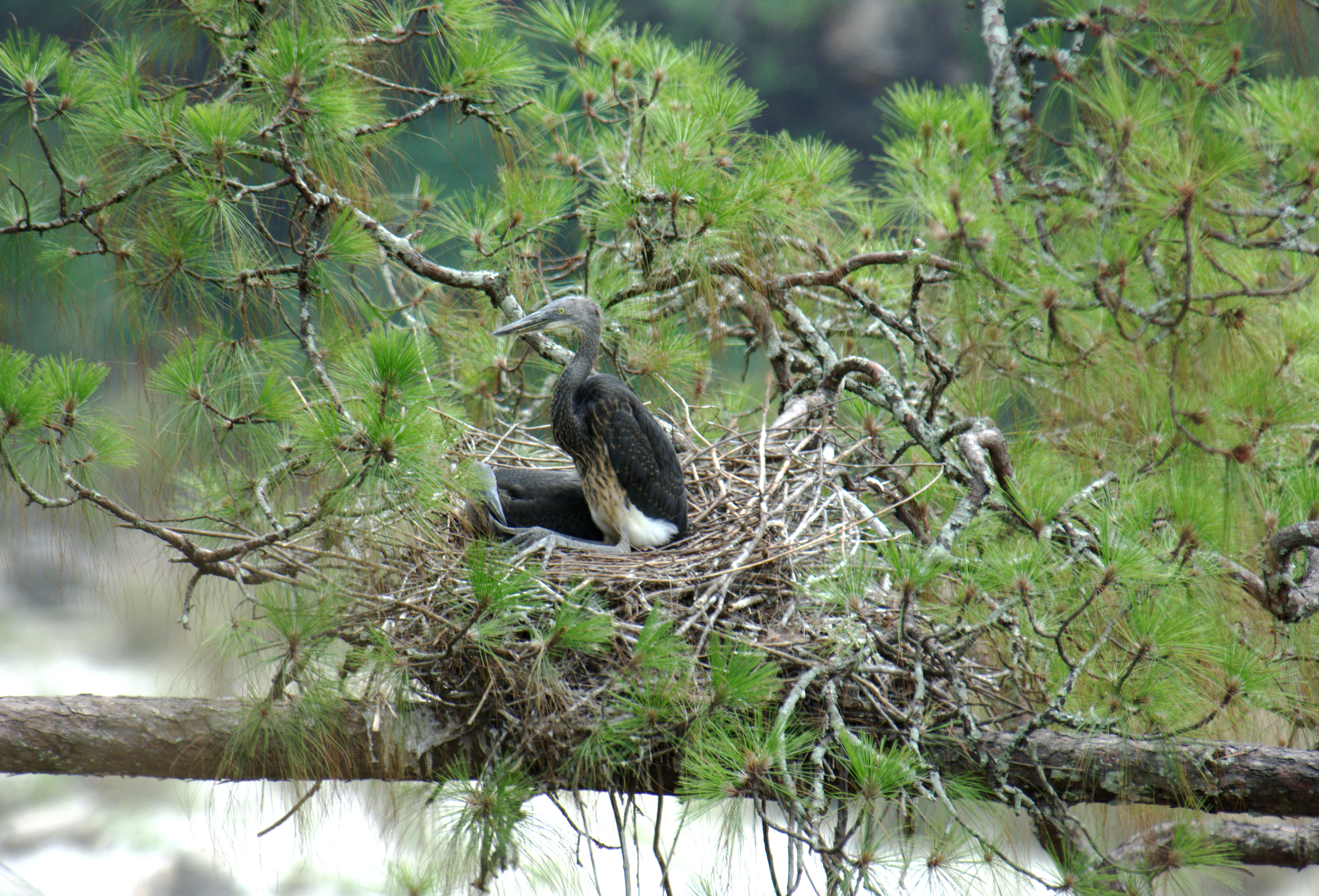 White-bellied Heron Ardea insignis nest by Dr. Raju Kasambe. This species is Critically Endangered.